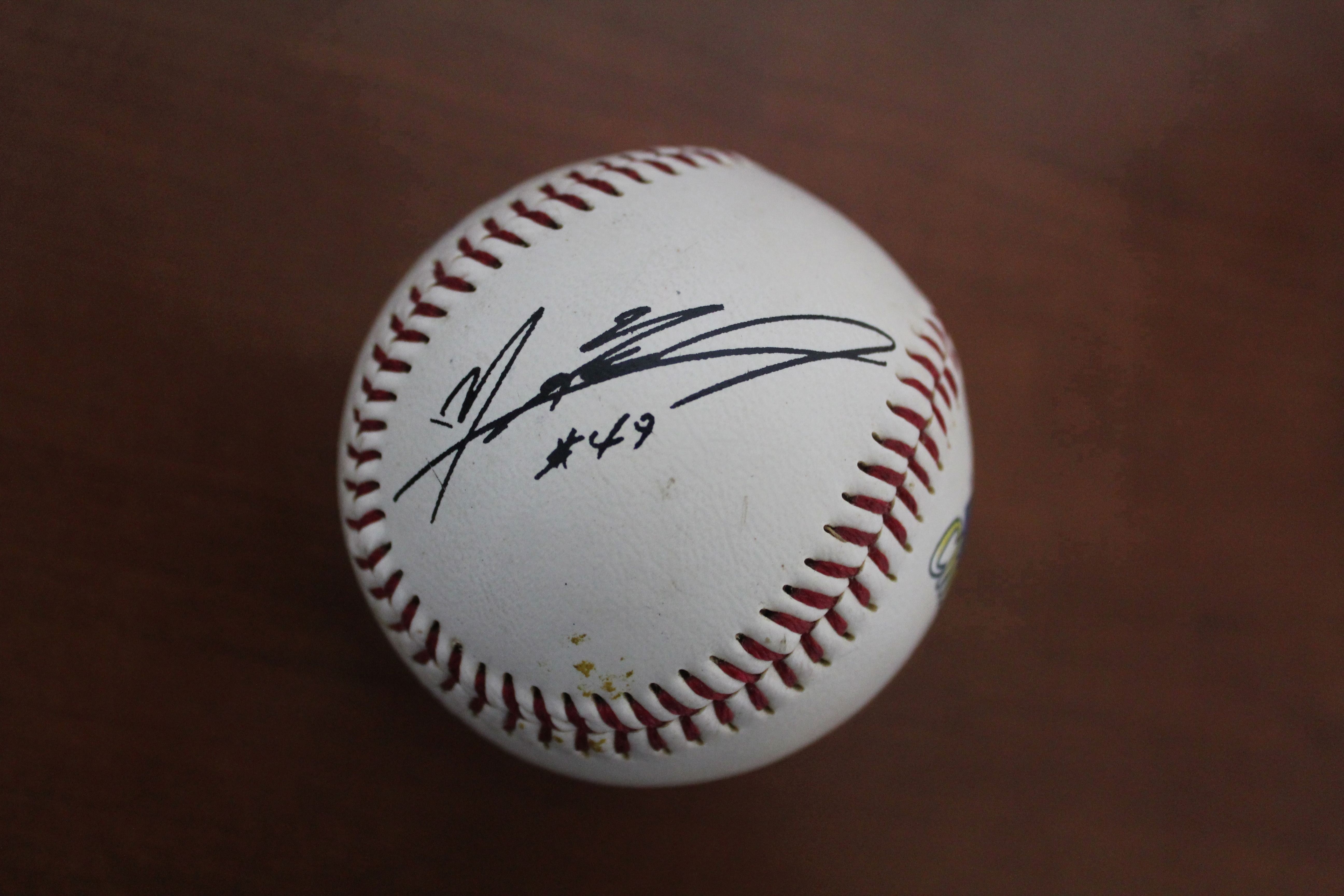 Korean Professional baseballer Ma Hae-Yeong's Signature